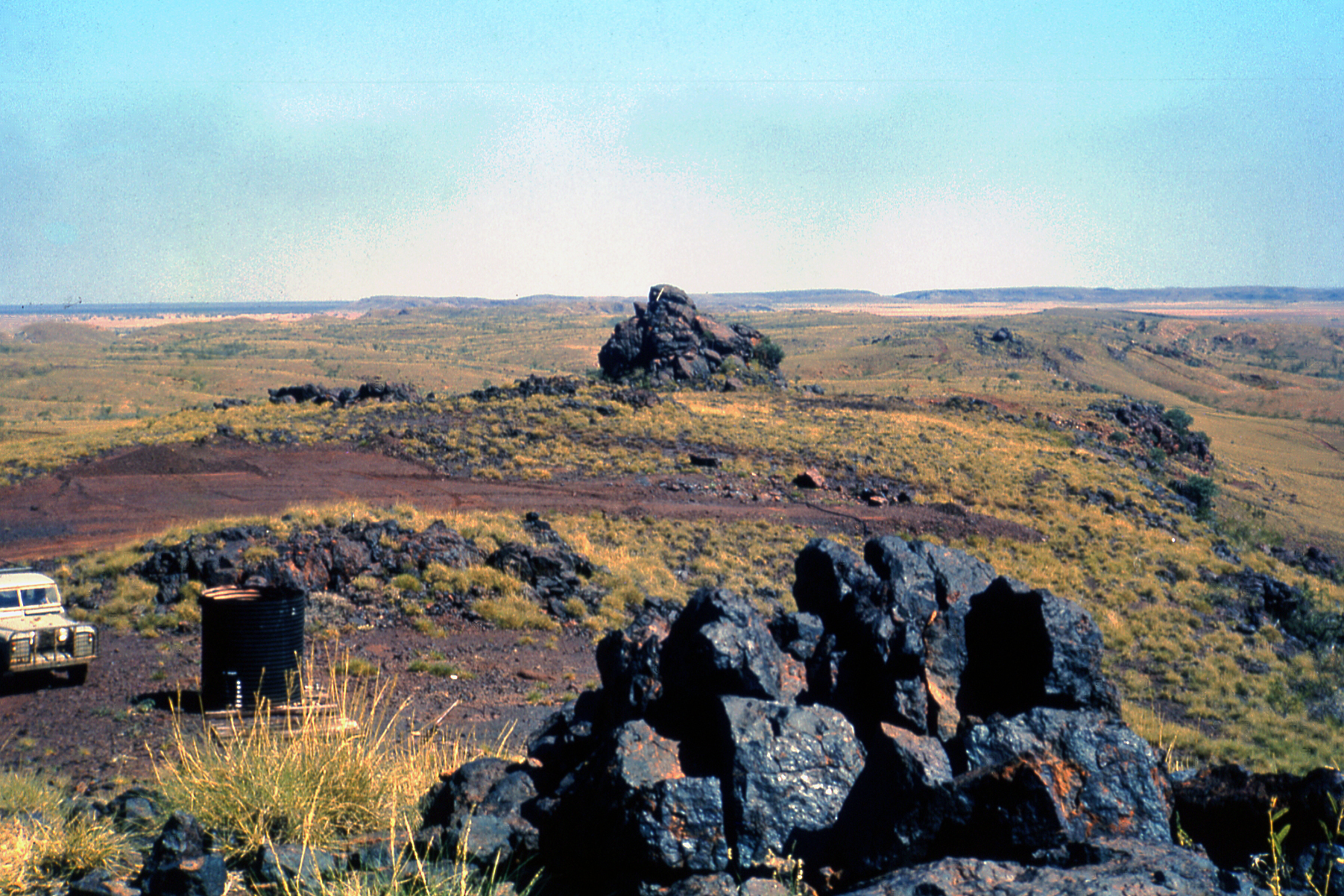 A view looking westward of iron ore outcrops on the top of Mount Goldsworthy before mining commenced. Goldsworthy town was established in the middle right and would not visible in this photograph when it was constructed. The original exploration and drilling camp is to the right of the photograph at the foot of the range. Corrected orientation